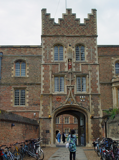 The Chimney and gatehouse, Jesus College, Cambridge The long narrow passageway from Jesus Lane to the Porters Lodge is known affectionately as "The Chimney". for more information on this 15th Century college.